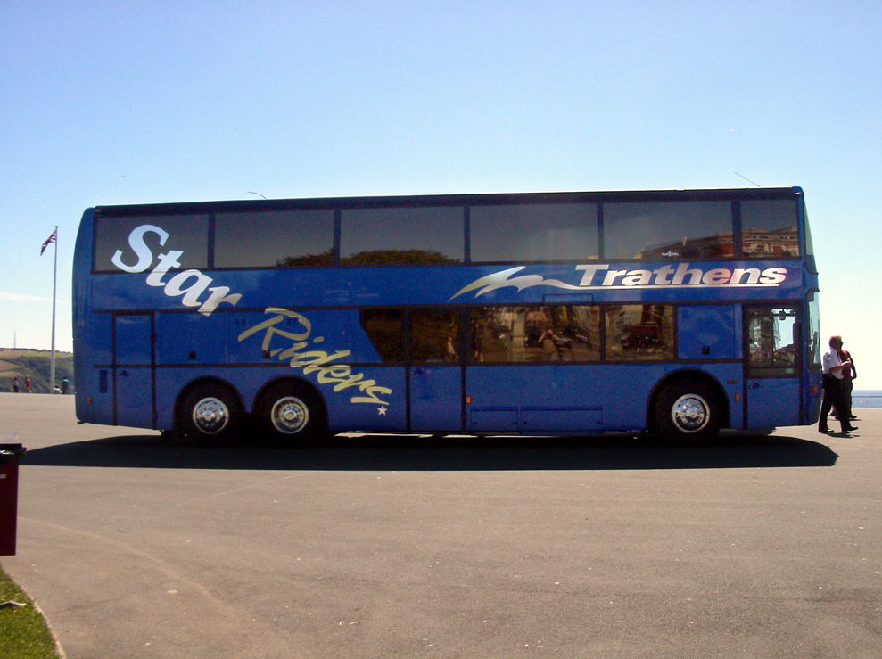 Plymouth 28 July 2002 Western National Rally G Richardson